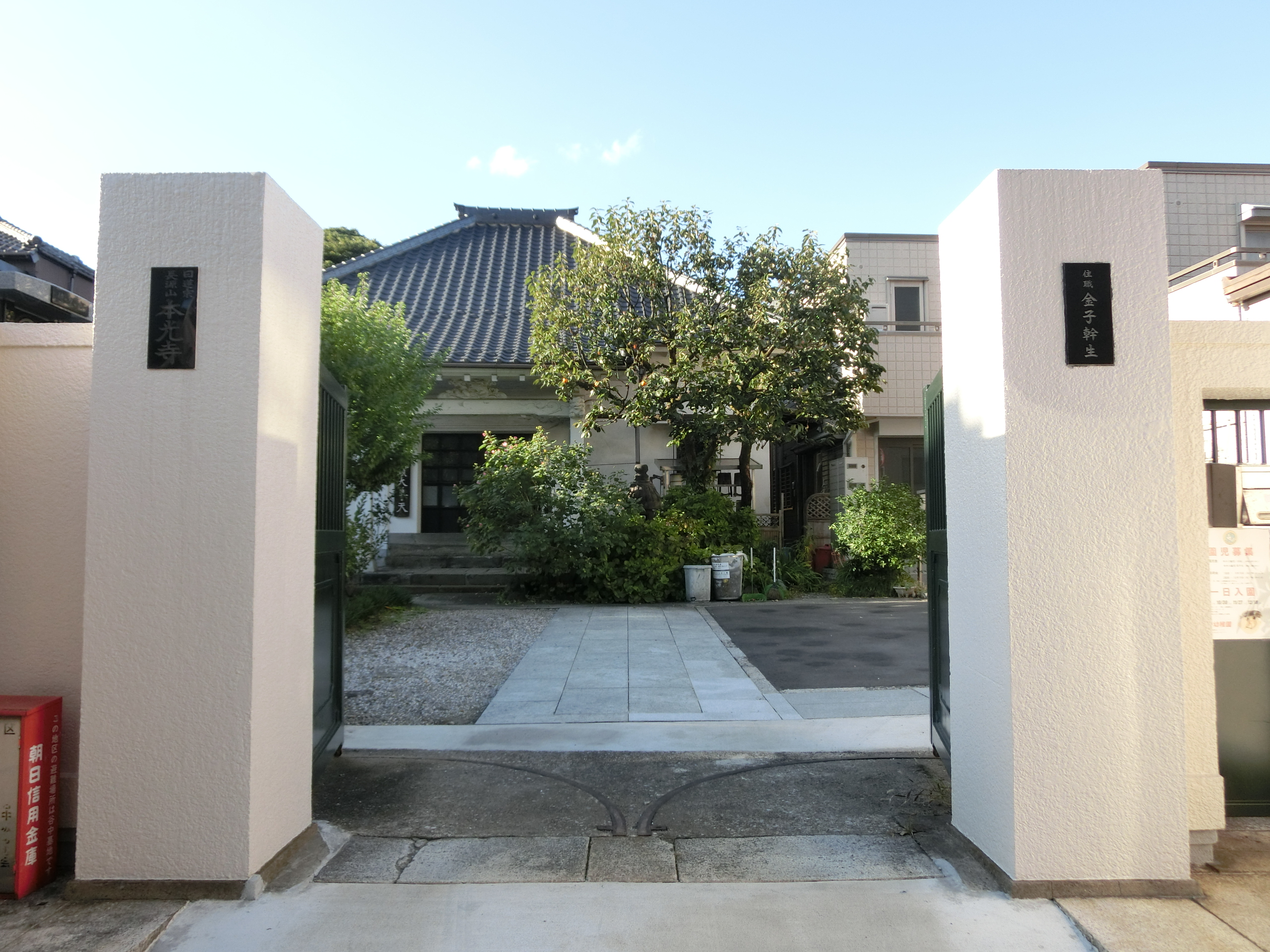 Honko-ji (Taito)